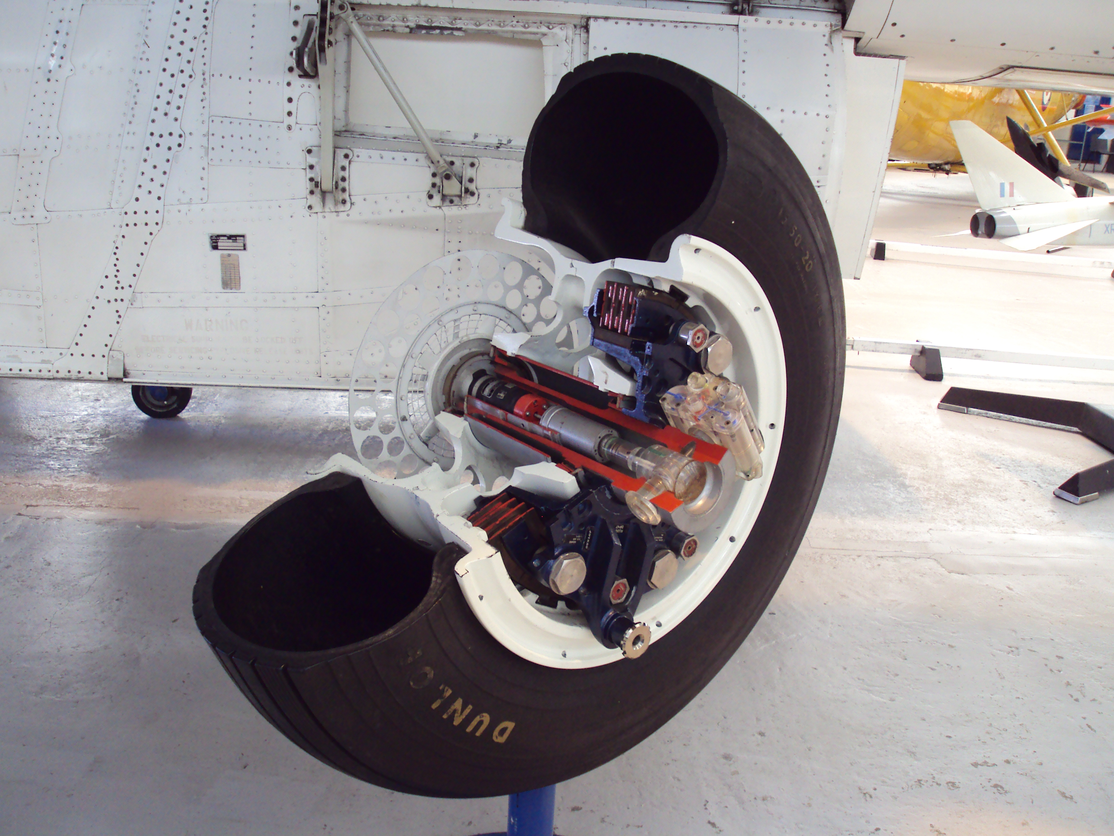 Aircraft wheel cut into a visible cross-section. Photo taken at the RAF Museum Cosford, Shropshire, England.